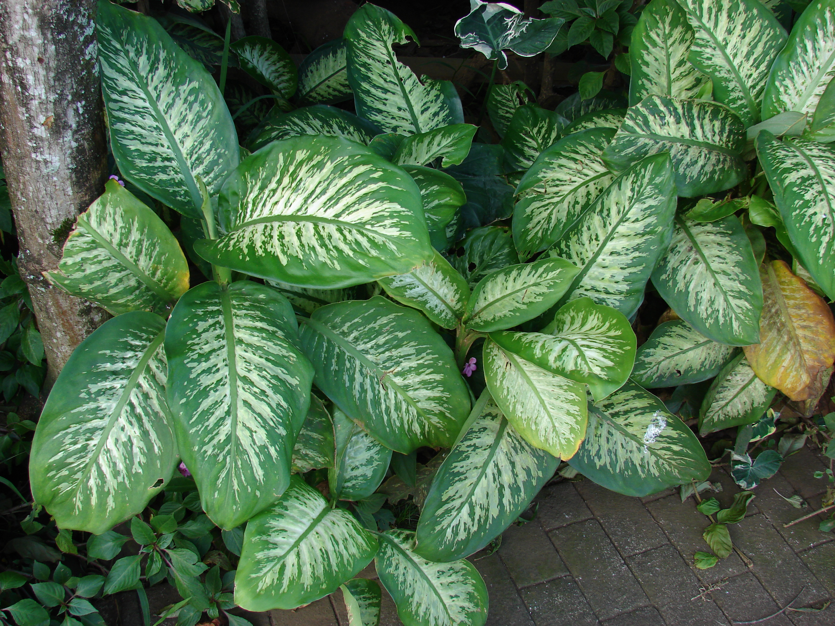 Dieffenbachia seguine (leaves). Location: Maui, Haiku